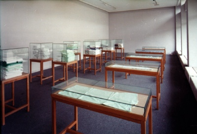 View of the installation "On Loan" by Iris Häussler, Potsdam near Berlin, 1995. Borrowed showcases present pieces of laundry, temporarily removed from their usage cycles in a local orphanage, a home for the disabled, a hospital, a retirement home and a prison.